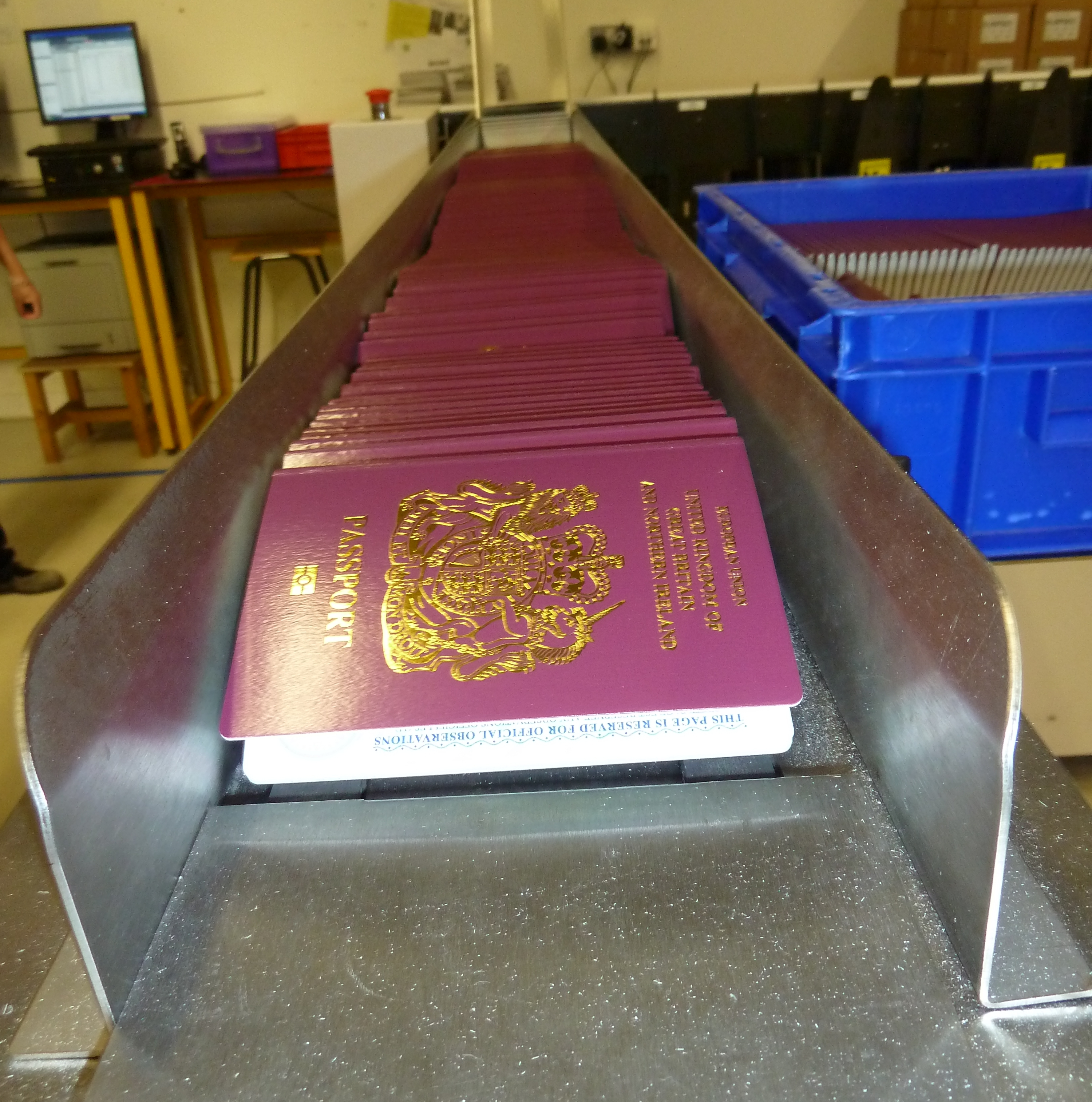 More than 5 million passports are printed a year and this is how they are made. The famous red books -- which will be 100 years old on 1 January 2015 -- are printed in a secret location in the North of England. One passport rolls off the factory every 2.5 seconds. Because of the high demand for passports, it is important to apply or renew early. Find out more: bit.ly/12ZEOYP